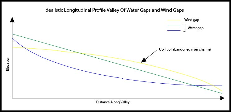 This presents the idealized river profiles of water gap and wind gap respectively. Note that this is a highly idealized profile and the actual profile should be much more rugged and irregular, though the average trend should be similar to the diagram.